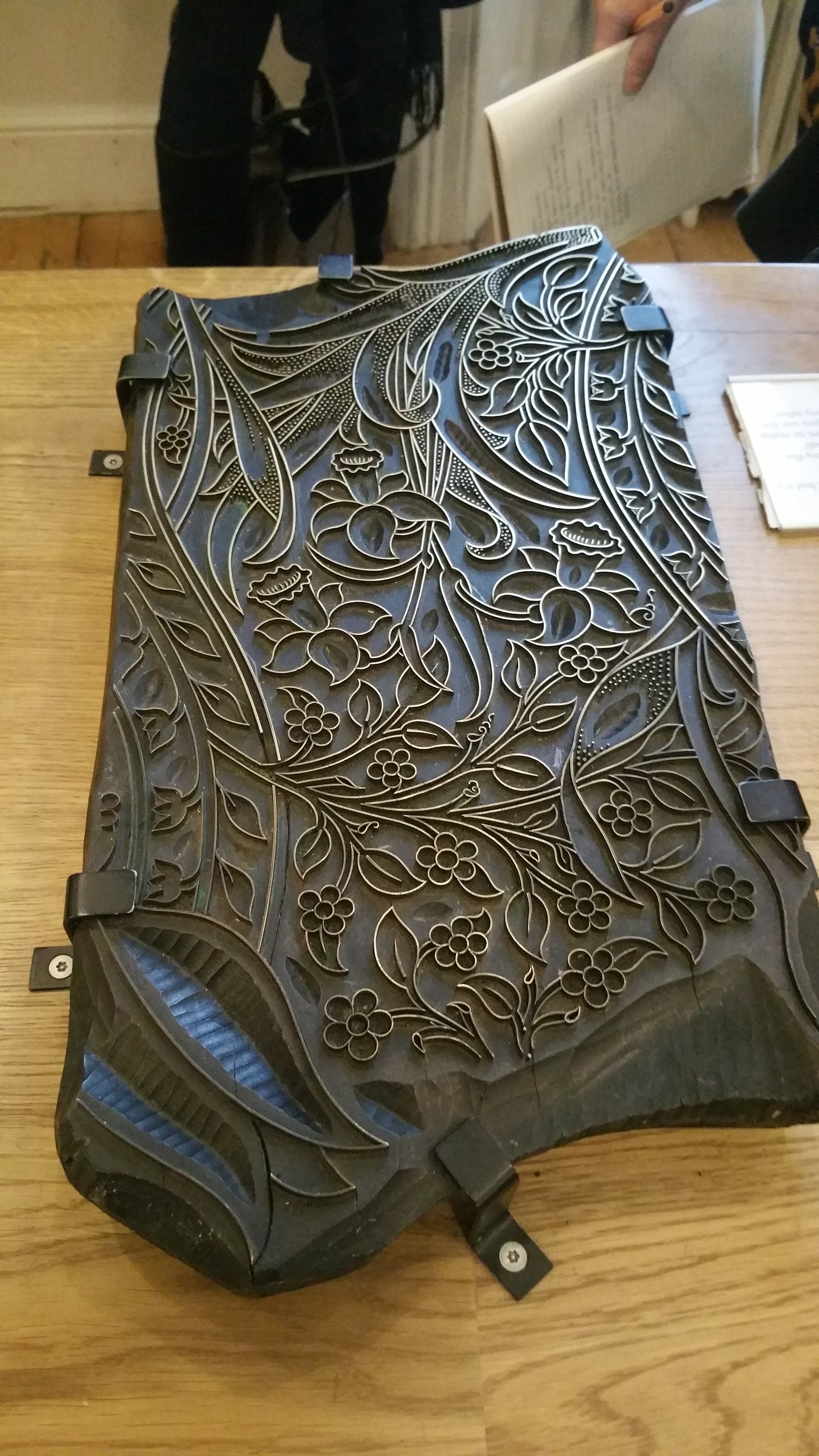 A Wood Pattern from for Textile Printing from William Morris's Company, hangs from the ceiling at the William Morris Gallery, London.